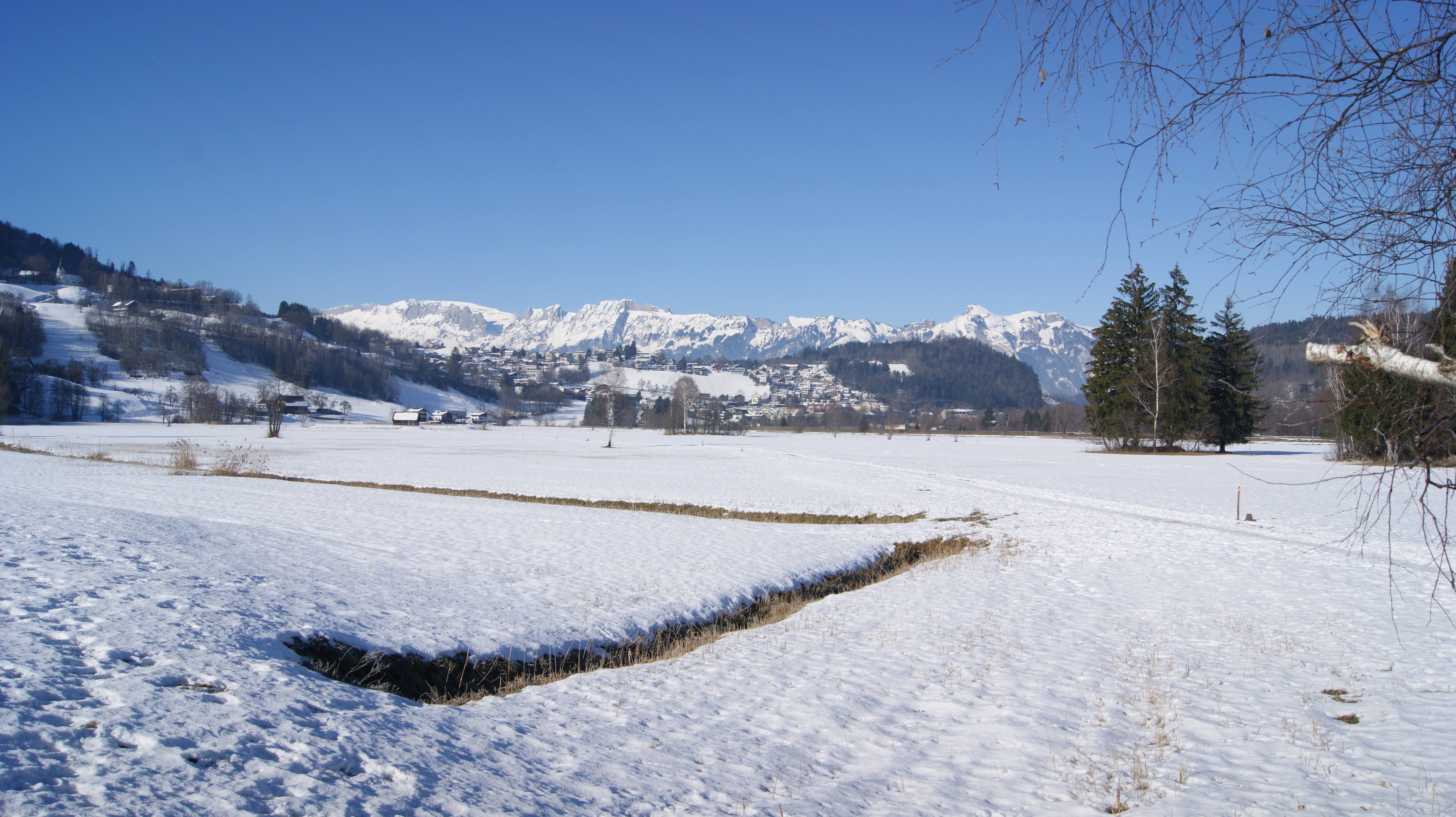 Frastanzer Ried (bog) in Frastanz, Vorarlberg, Austria. View to the Swiss mountains.